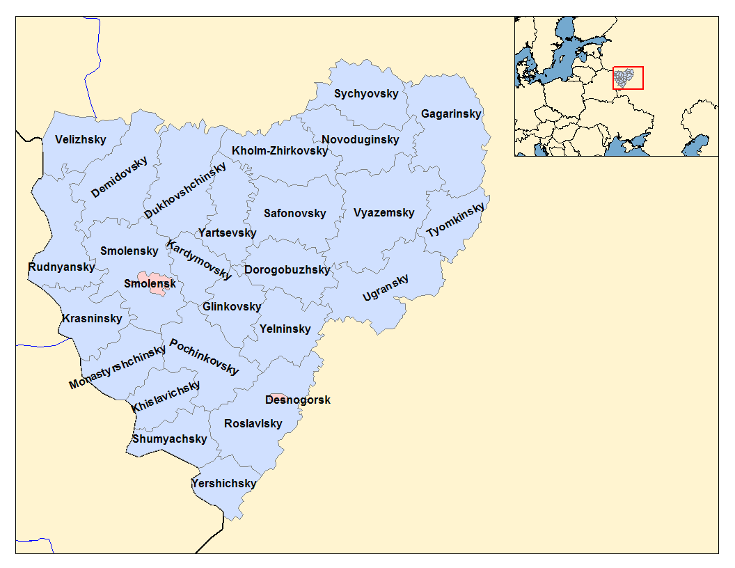 Map of the administrative divisions of Smolensk oblast in Russia. Created by Rarelibra 20:34, 29 March 2007 (UTC) for public domain use, using MapInfo Professional v8.5 and various mapping resources.